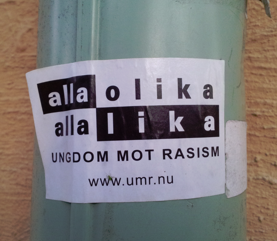 Campaign Sticker by Youth Against Racism, which says "All different - All equal"